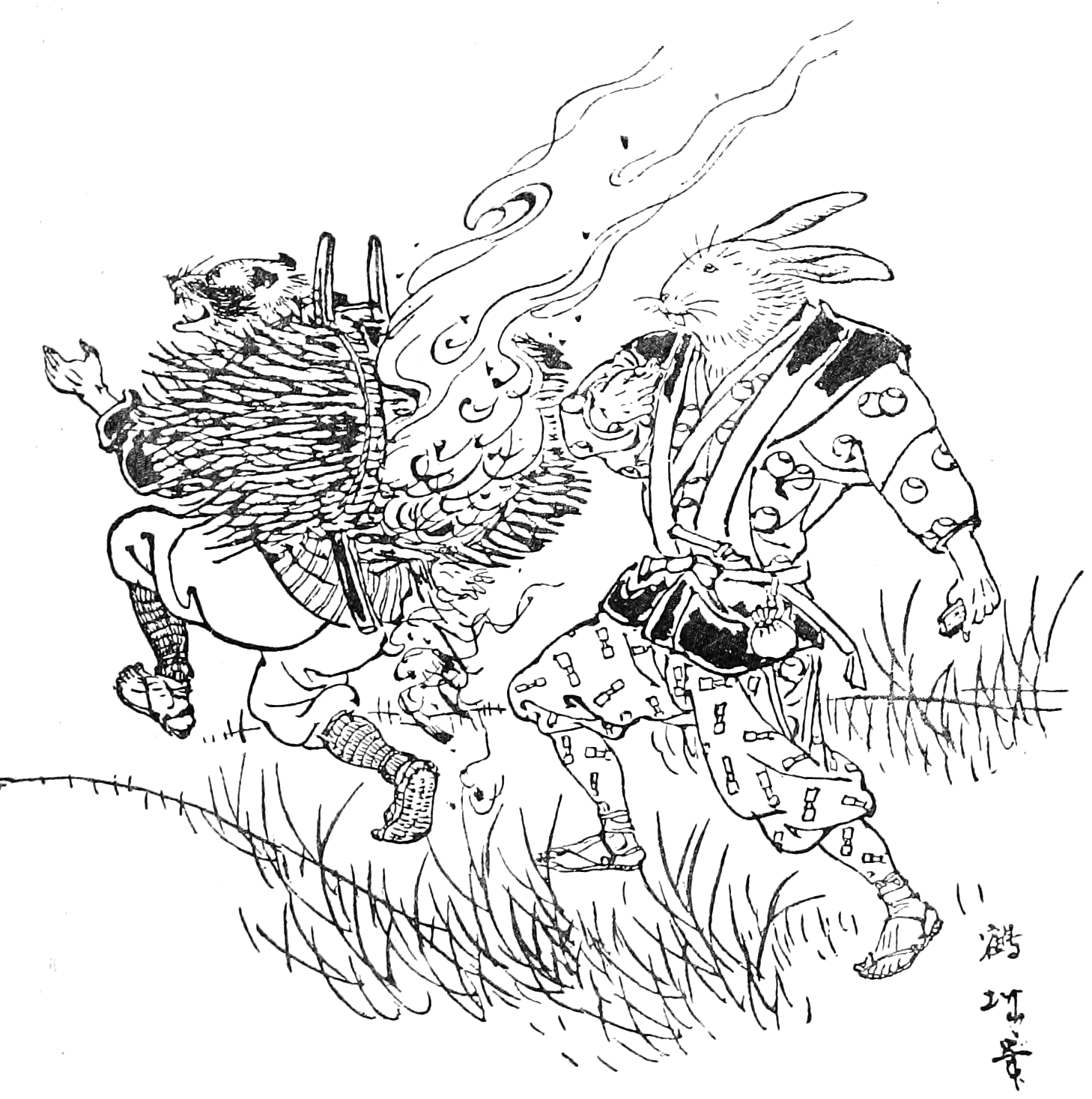 Image from The Japanese Fairy Book